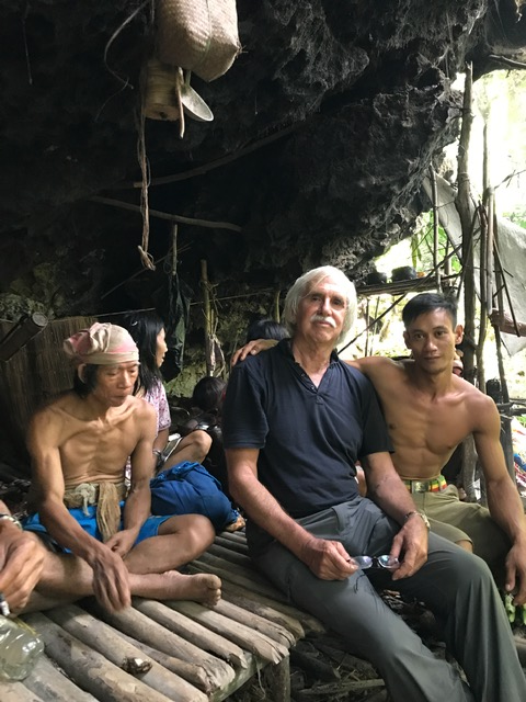 Punan Batu at a cave in Kalimantan 2018.